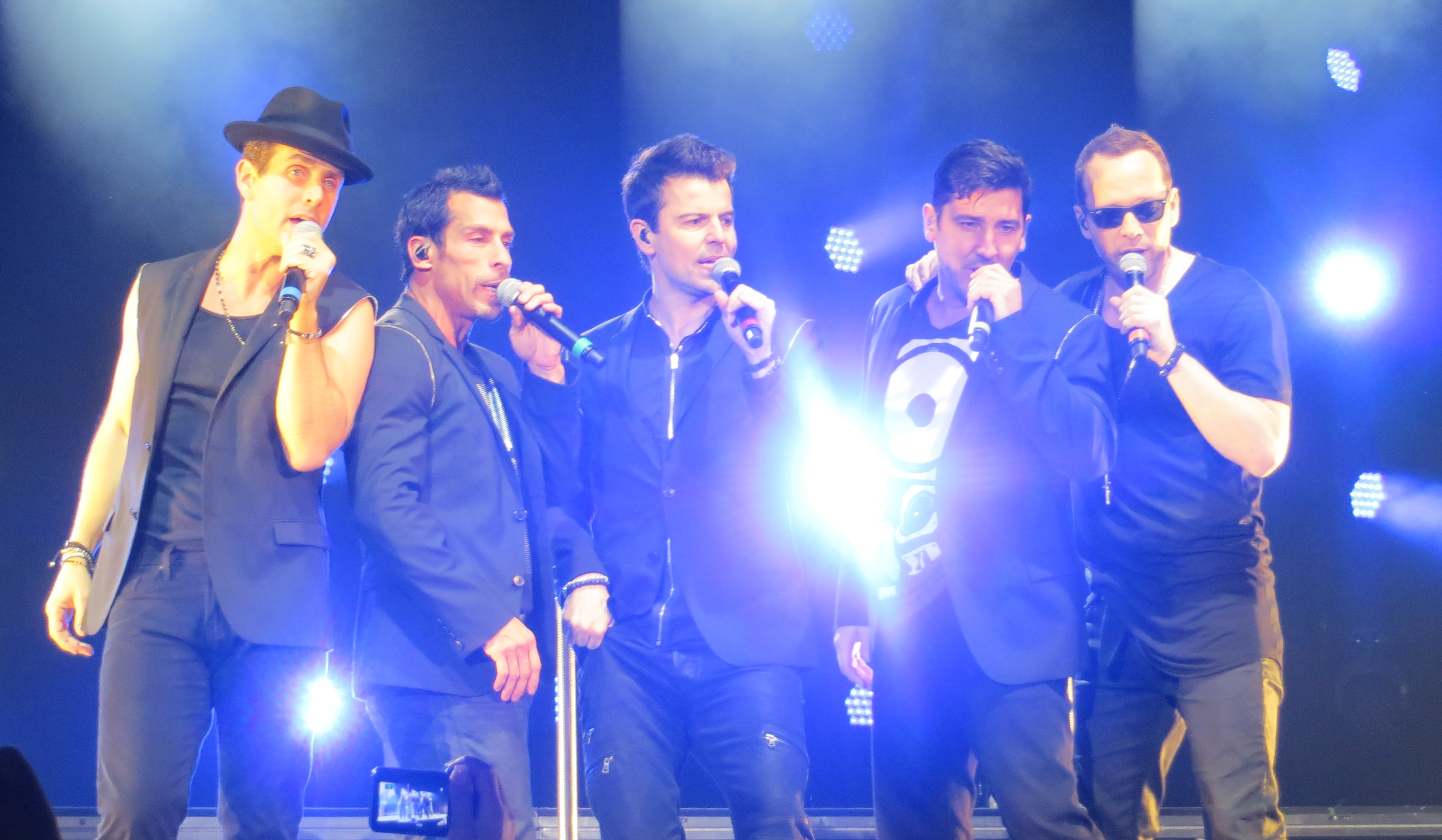 An Intimate Evening with New Kids On The Block – European Tour 2014